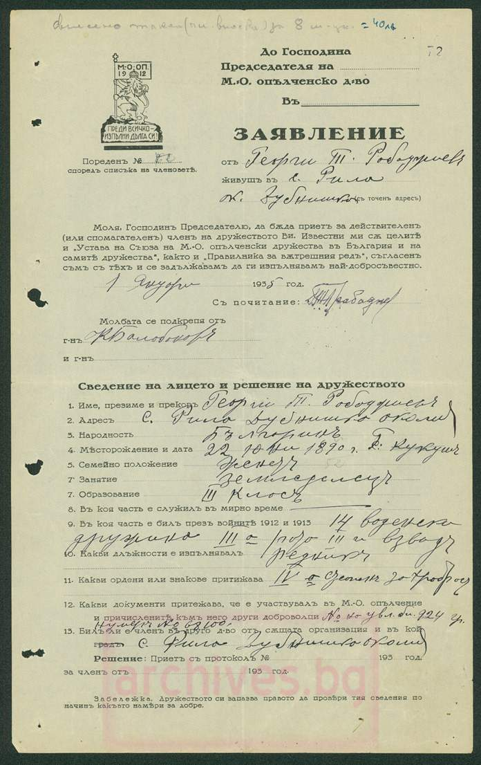 Georgi_Rabadziev's Document